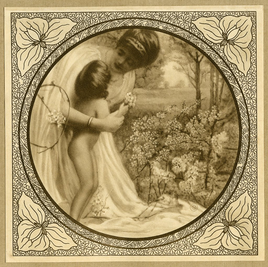 Sonnets from the Portuguese